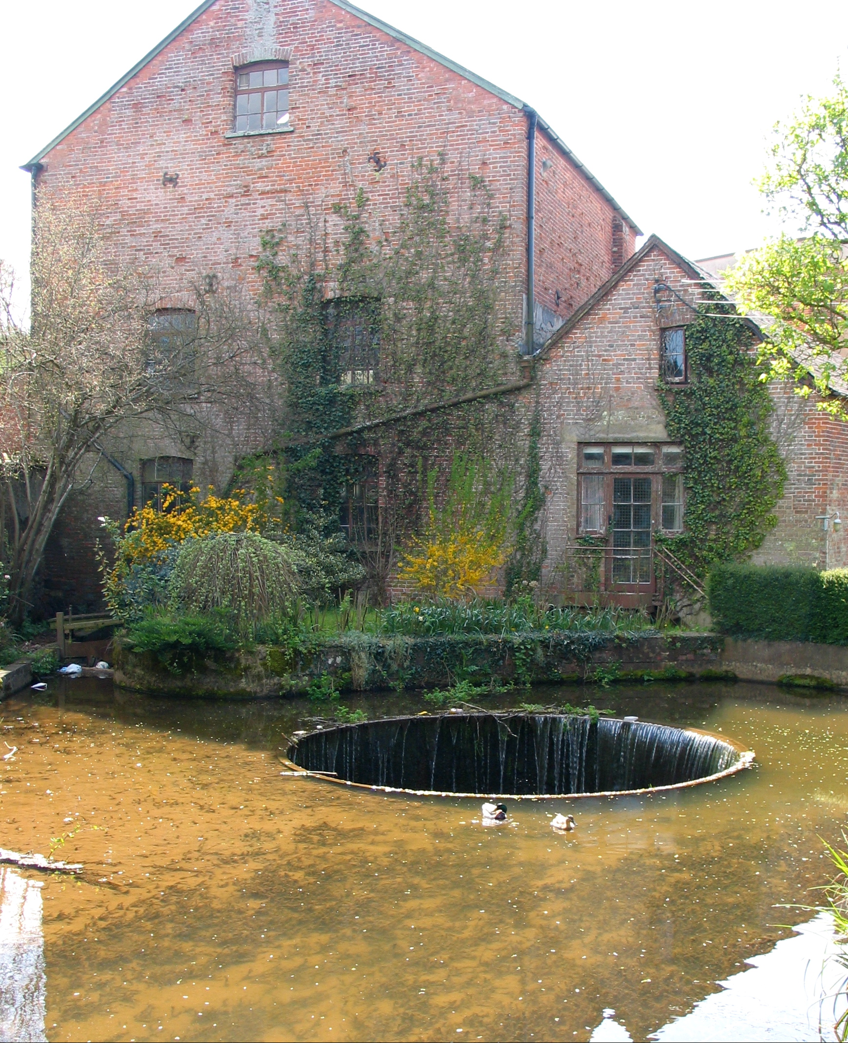 a photograph of the tumbling weir in Ottery St Mary, taken 2006-04-27